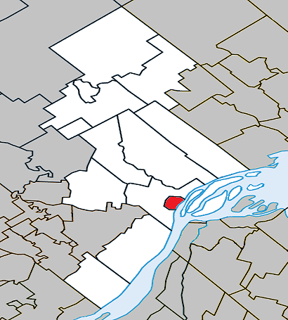 Location of Berthierville, Quebec within D'Autray Regional County Municipality.